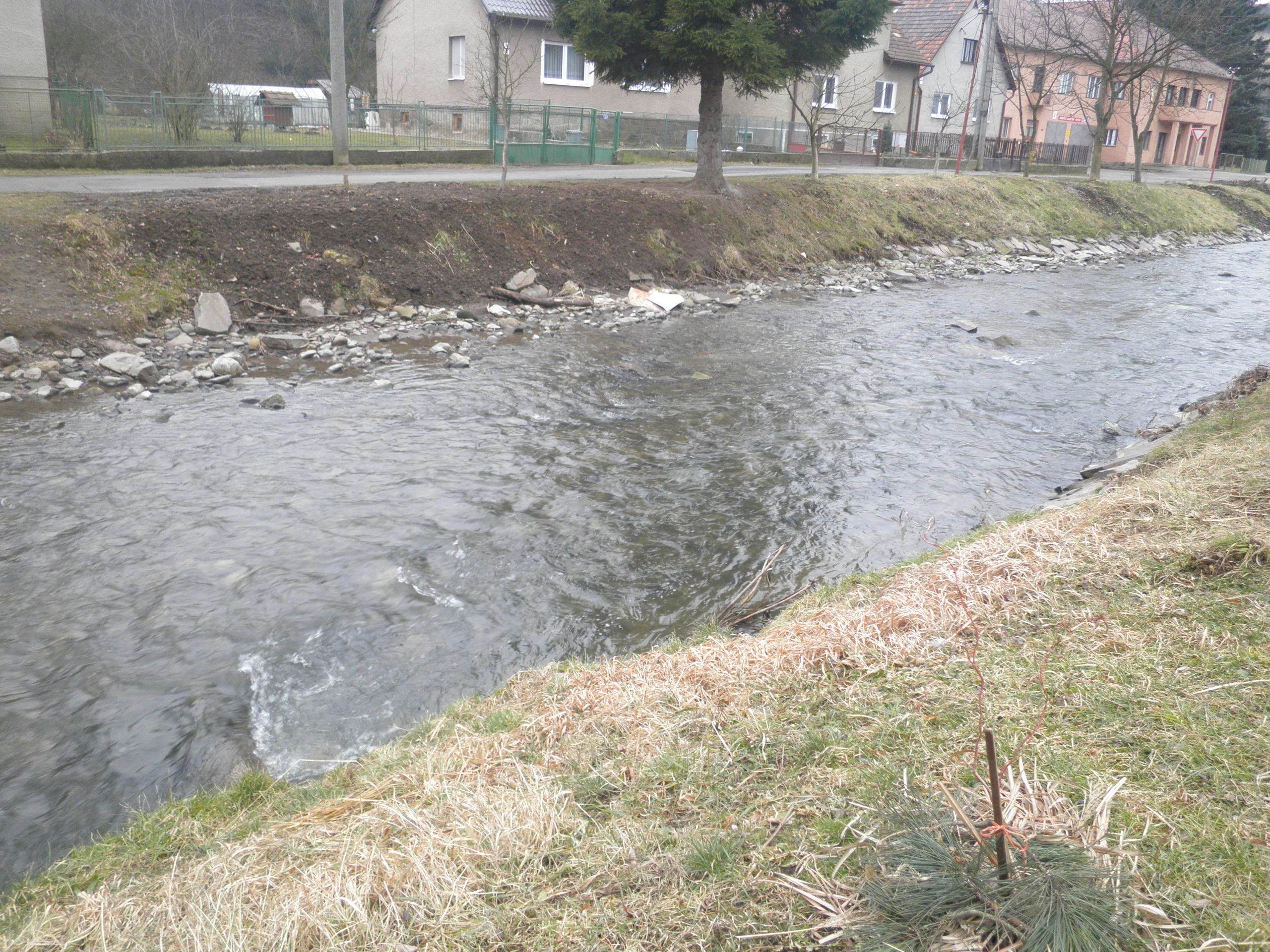 Handlovka River in Raztocno